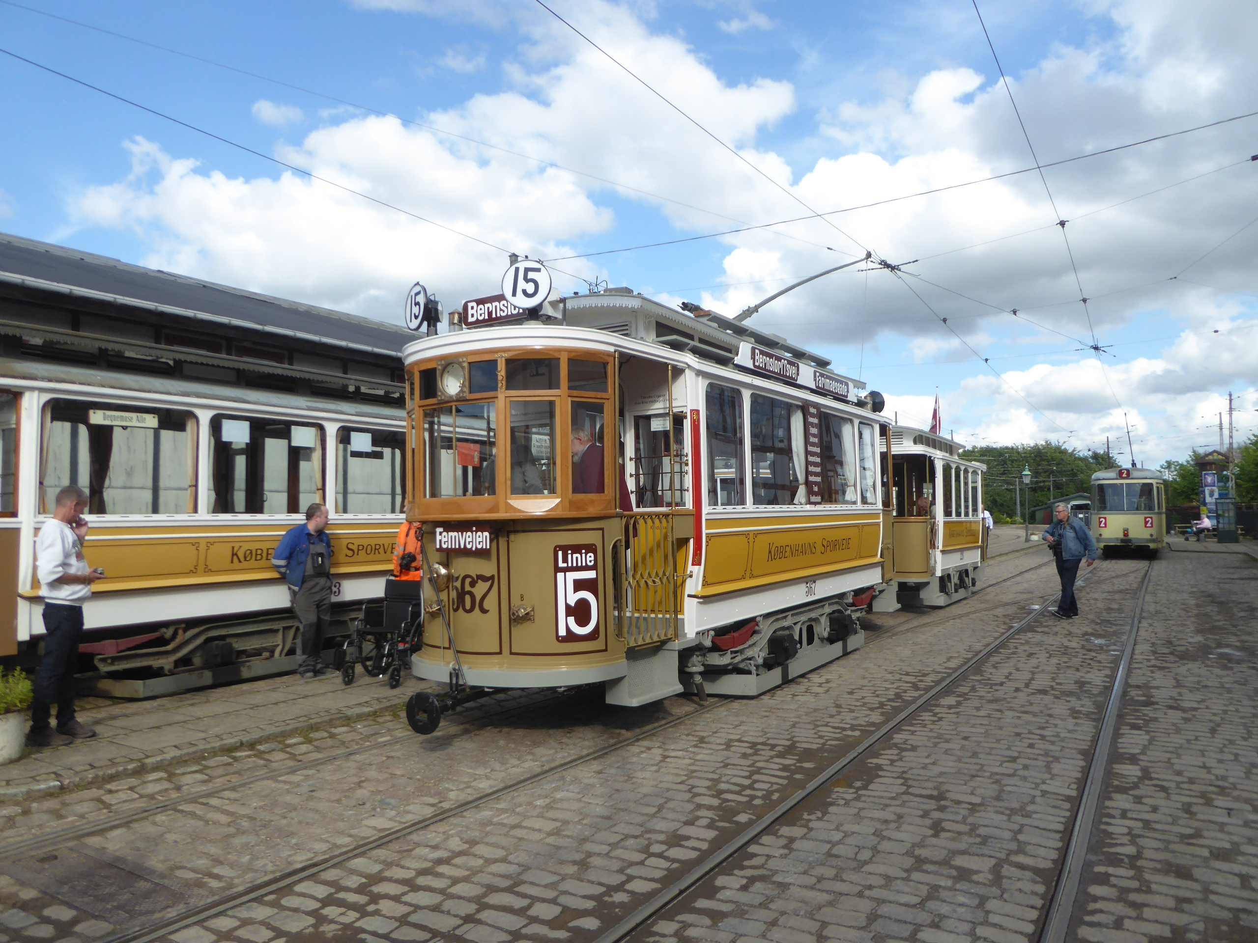 Old trams from Copenhagen, KS 567 build in 1907 and KS 226 from 1897, at Sporvejsmuseet Skjoldenæsholm.